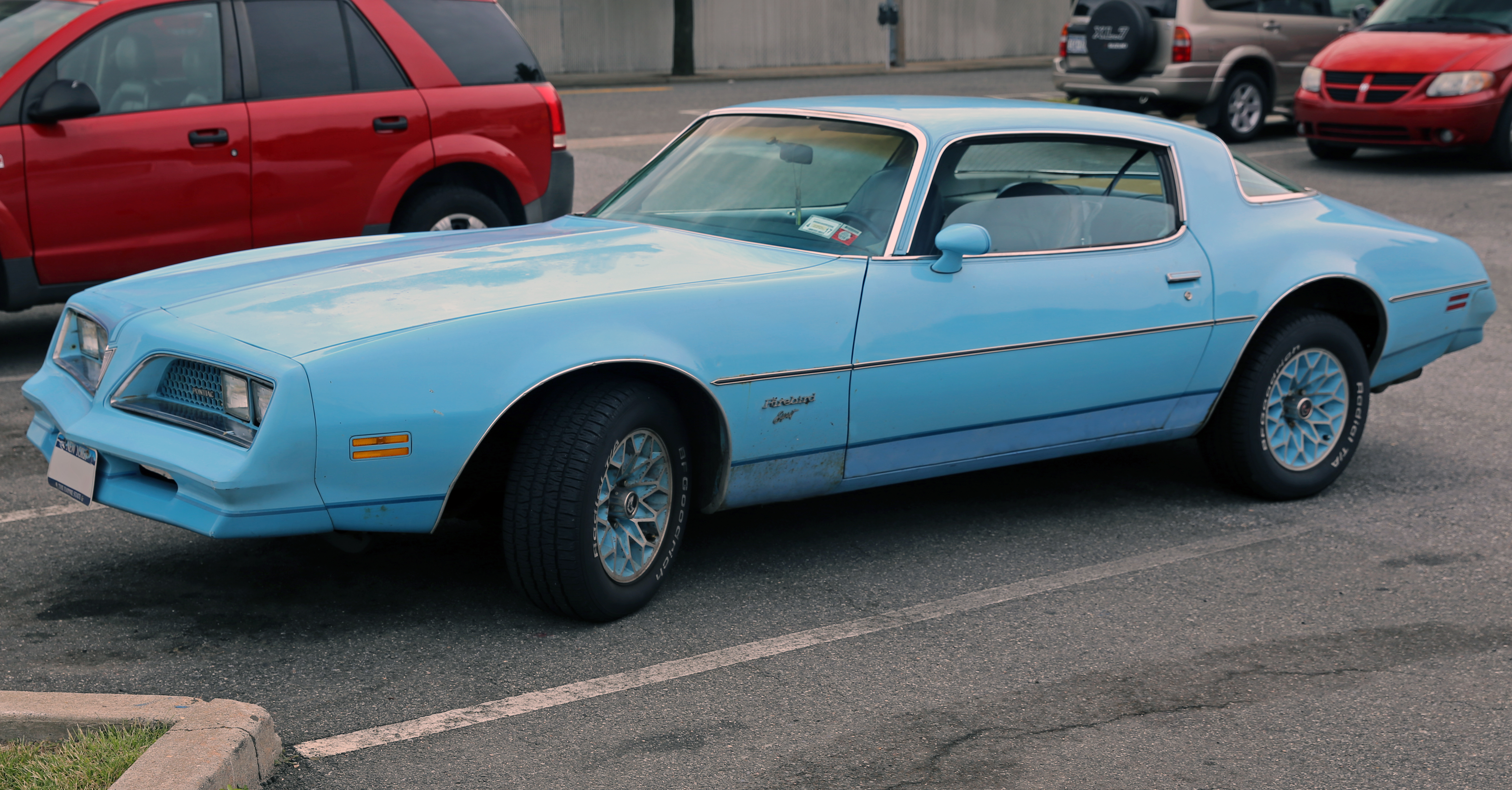 A 1977 Pontiac Firebird Esprit. A bit run down, but still a happy sight. I think the owner said it has the 3.8 (231ci) V6, but I could be remembering wrong.